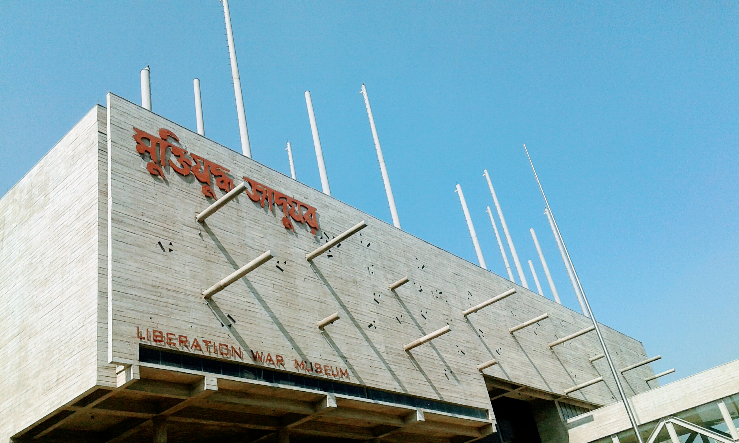 Front side of Liberation War Museum.